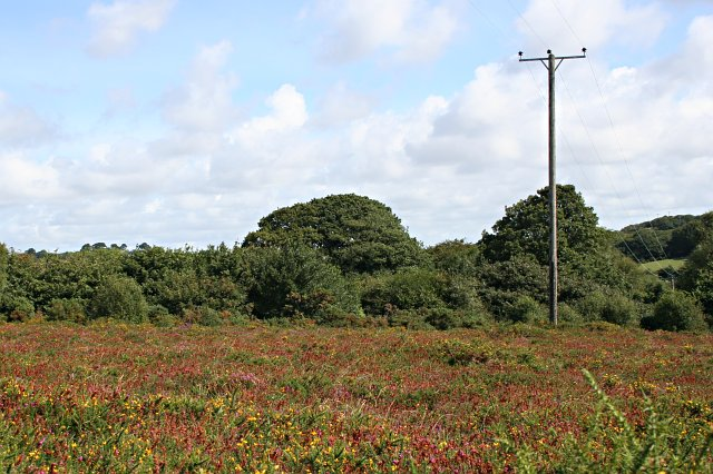 Carrine Common. This colourful display of heathers and gorse flowers is probably way past its best in late August. Carrine Common is an example of Temperate Atlantic Wet Heathland. Mixed in with the yellow flowering Western Gorse (Ulex gallii) are different heathers, including Dorset Heath (Erica ciliaris) and Cross-leaved Heather (Erica tetralix). There is a path through this and it is inadvisable to leave it. The fearsome spines of the Western Gorse are not to be tangled with.